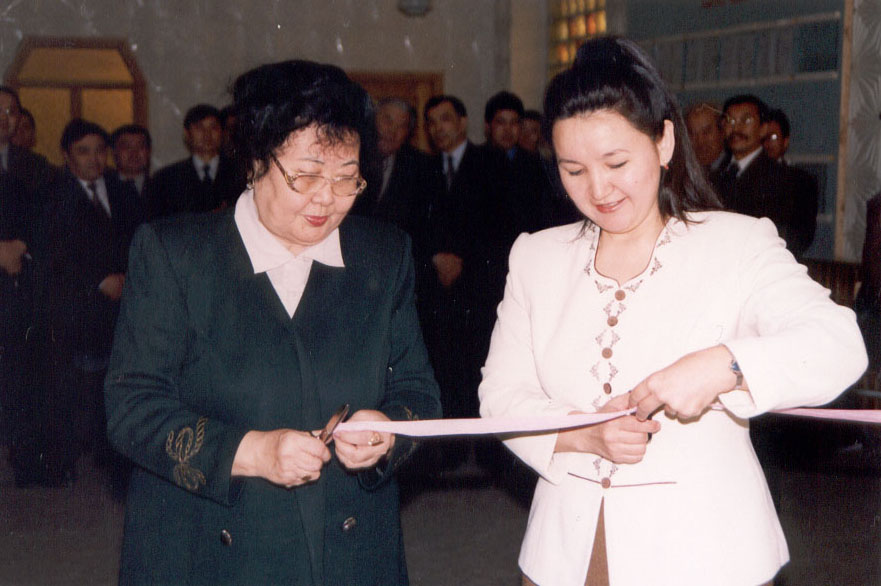 dar itf